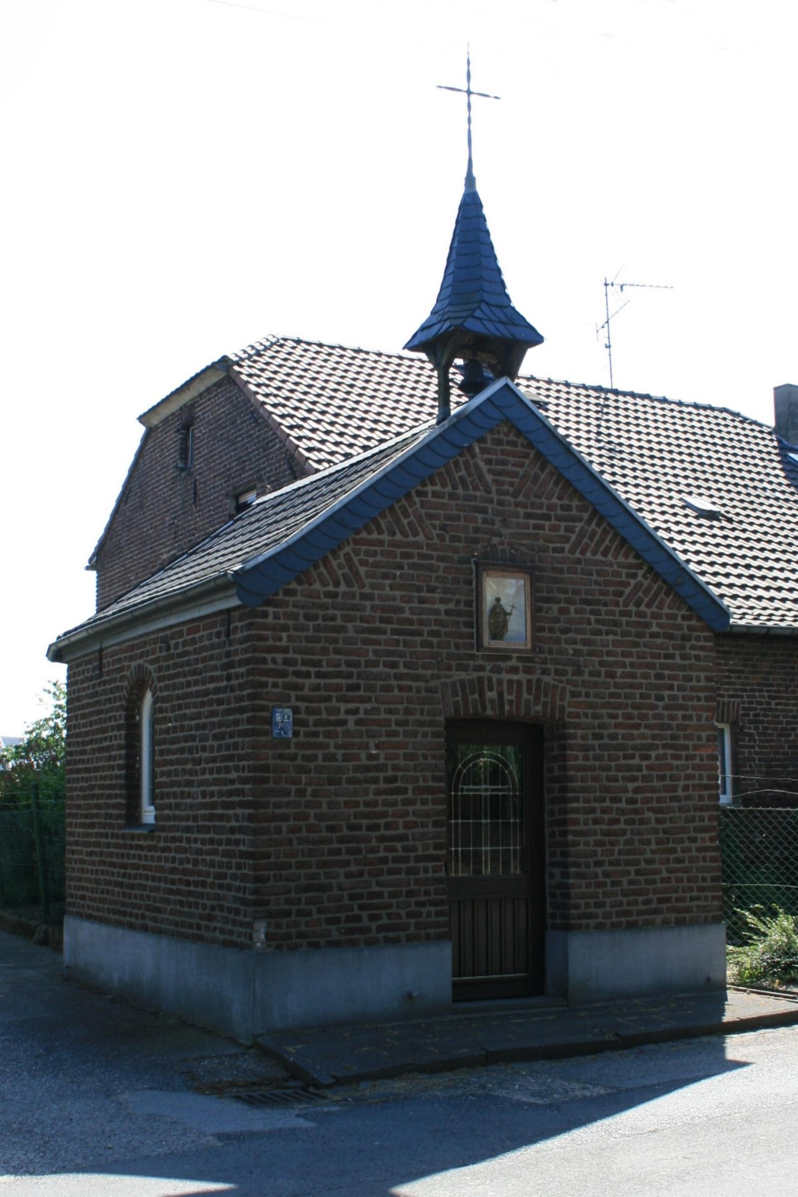 Cultural heritage monument No. M 023 in Mönchengladbach